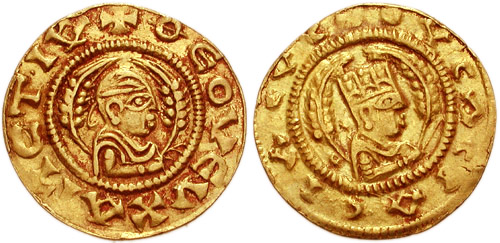 A gold coin of the Axumite king Ousas, specifically a one third solidus, diameter 17 mm, weight 1.50 gm. Catalogue reference: Munro-Hay 85.